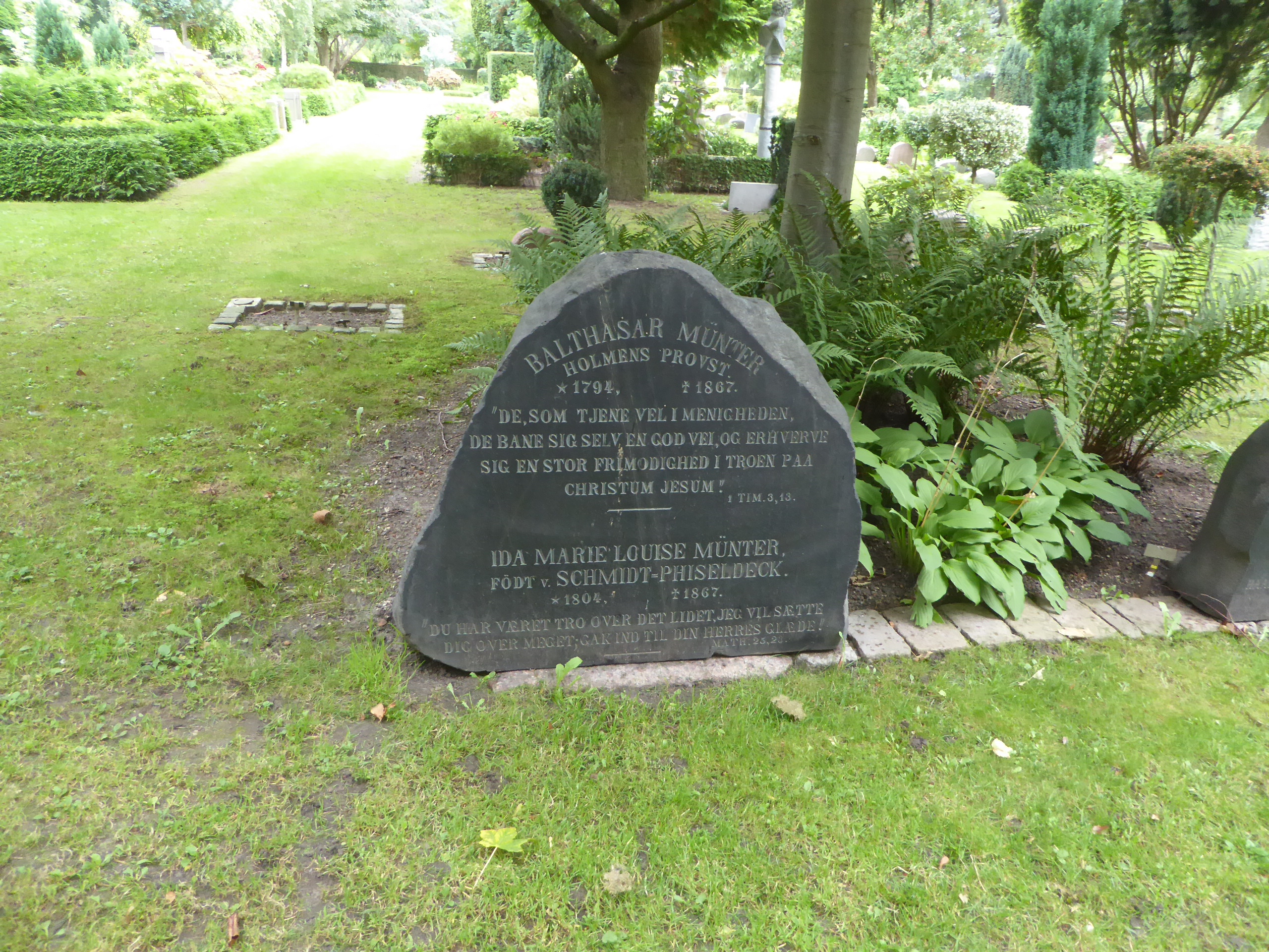 Grave of the rural dean Balthasar Münter (1794-1867) at Holmens Kirkegård in Østerbro in Copenhagen.